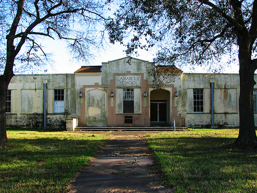 LaMarque Common School in La Marque, Galveston County, Texas. Now abandoned. Links and sourcing information regarding the school is given on the talk page.